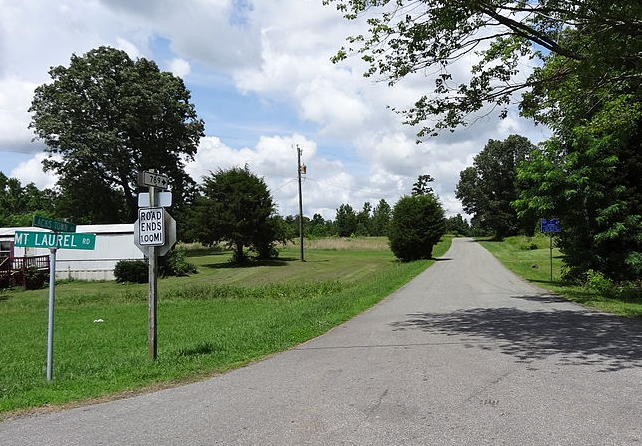 Lacks Town Road (SR 789) at its intersection with Mt Laurel Road (SR 746). Lackstown is the name of the land that has been held by the (black) Lacks family since they received it from the (white) Lacks family, who had owned the ancestors of the black Lackses when slavery was legal. Henrietta Lacks lived in Lackstown, and is buried in a family cemetery there.